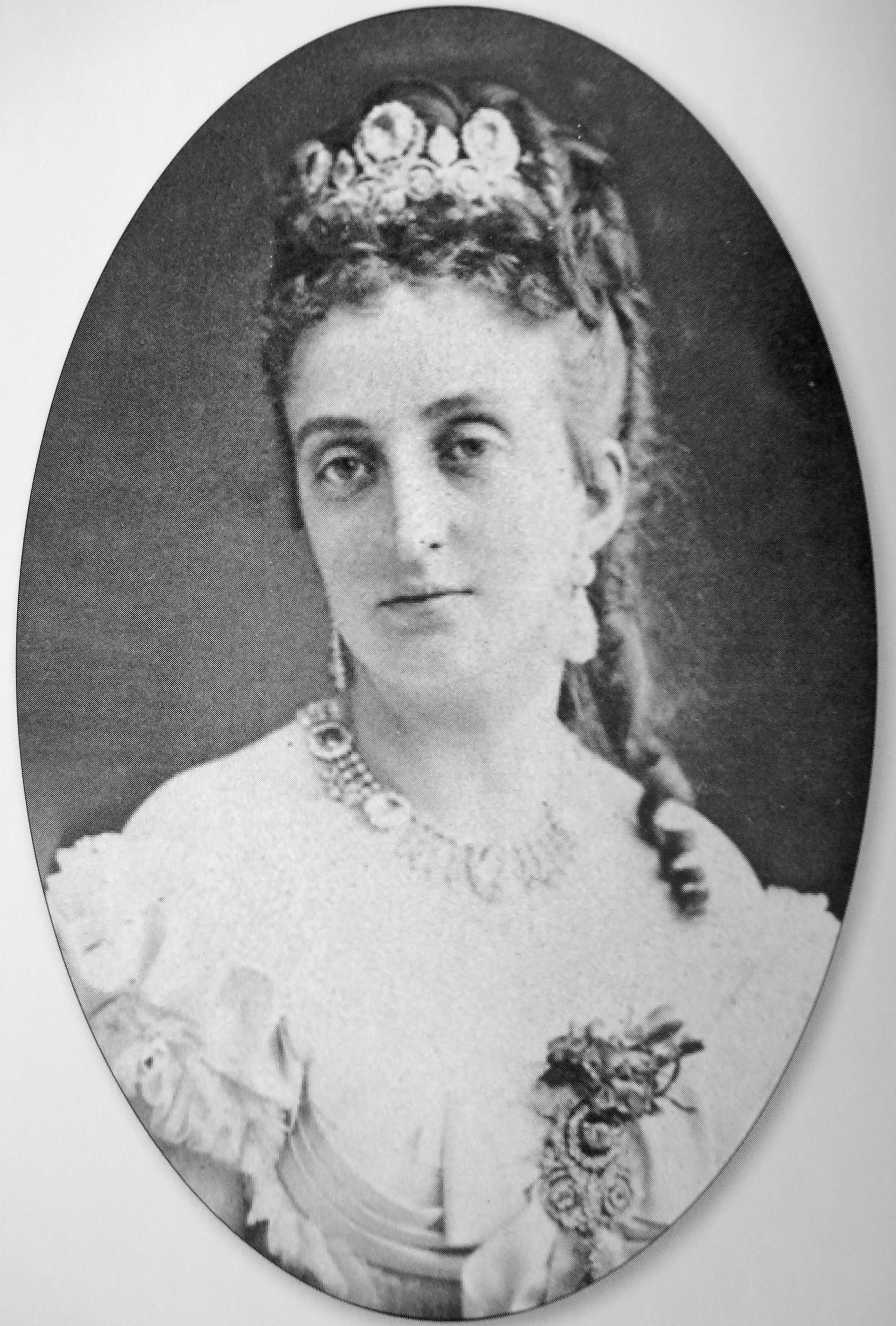 Princess Marie Isabelle of Orléans (1848-1919), Countess of Paris